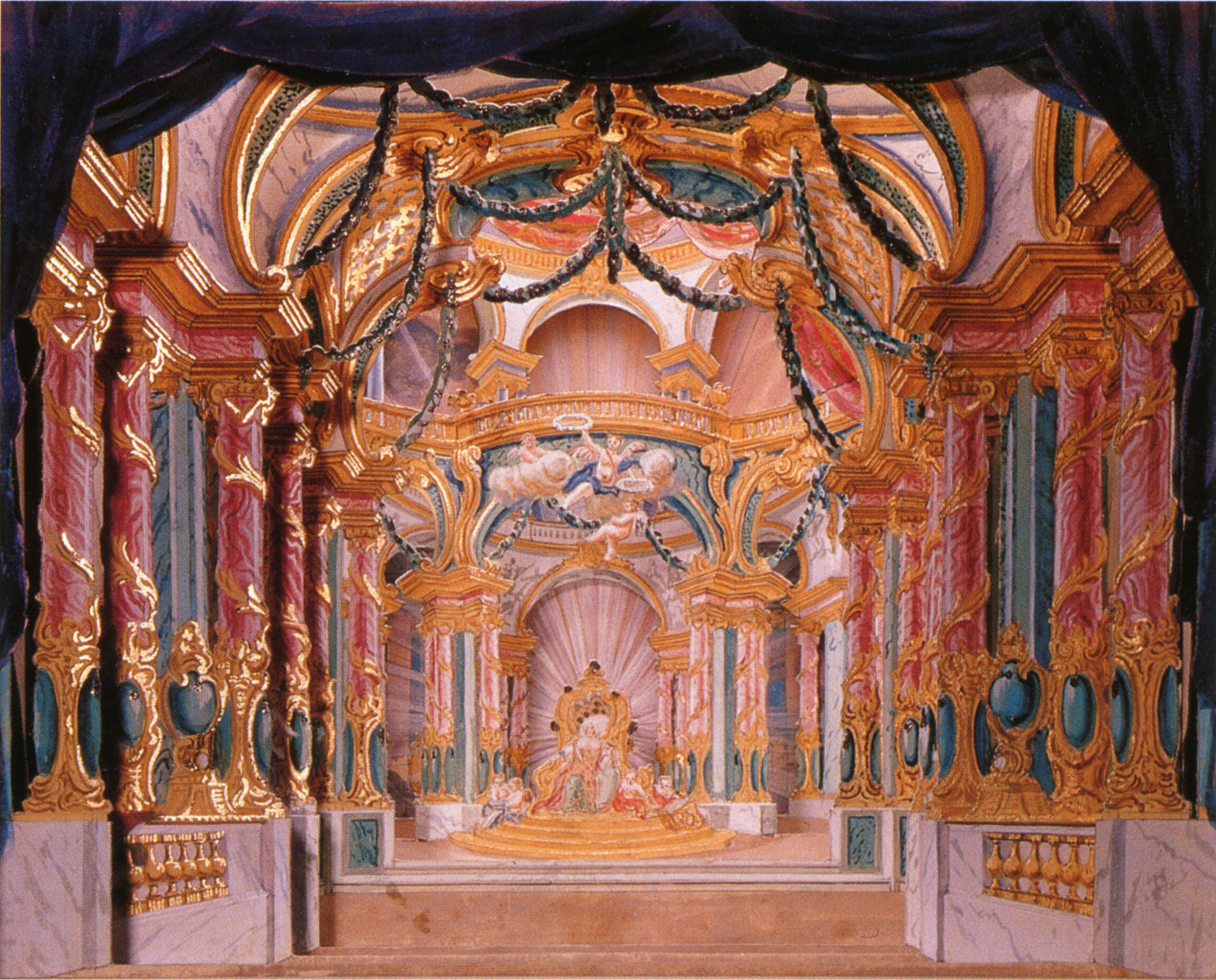 Set design for the Palace of Venus in Les fêtes de Paphos, an opéra-ballet with music composed by Jean-Joseph de Mondonville. (Centre des Monuments Nationaux, Paris)